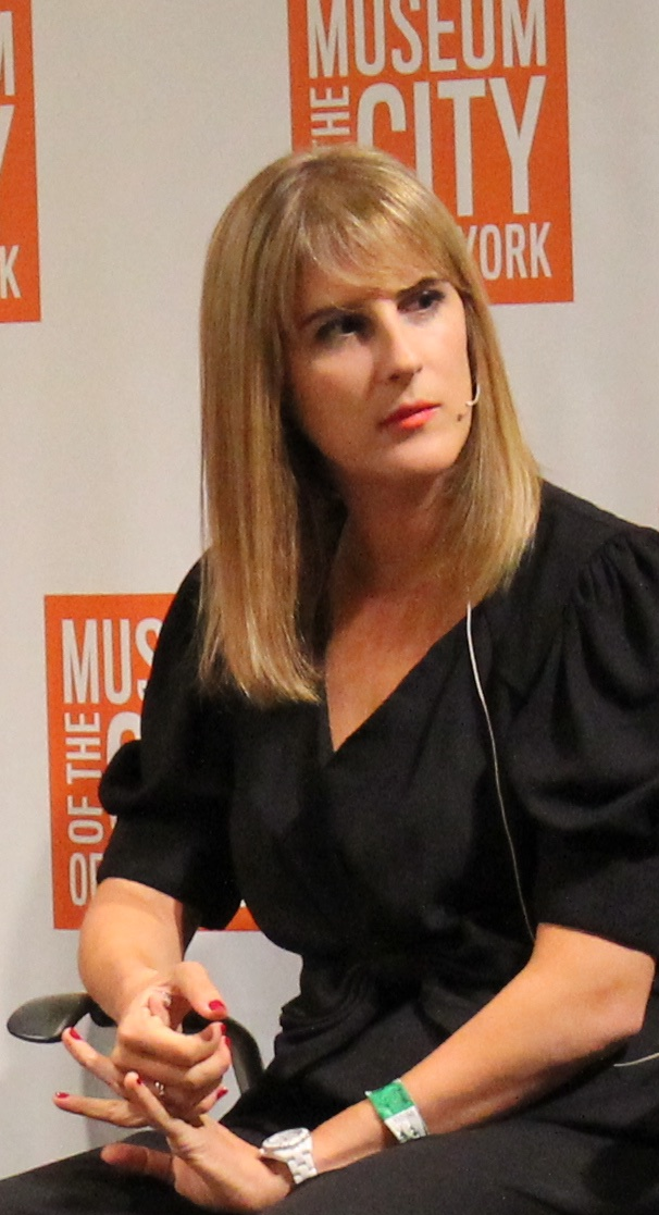 Sarah Maslin Nir, Reporter for the The New York Times, at the "Living City, Living Wage" discussion at the Museum of the City of New York.